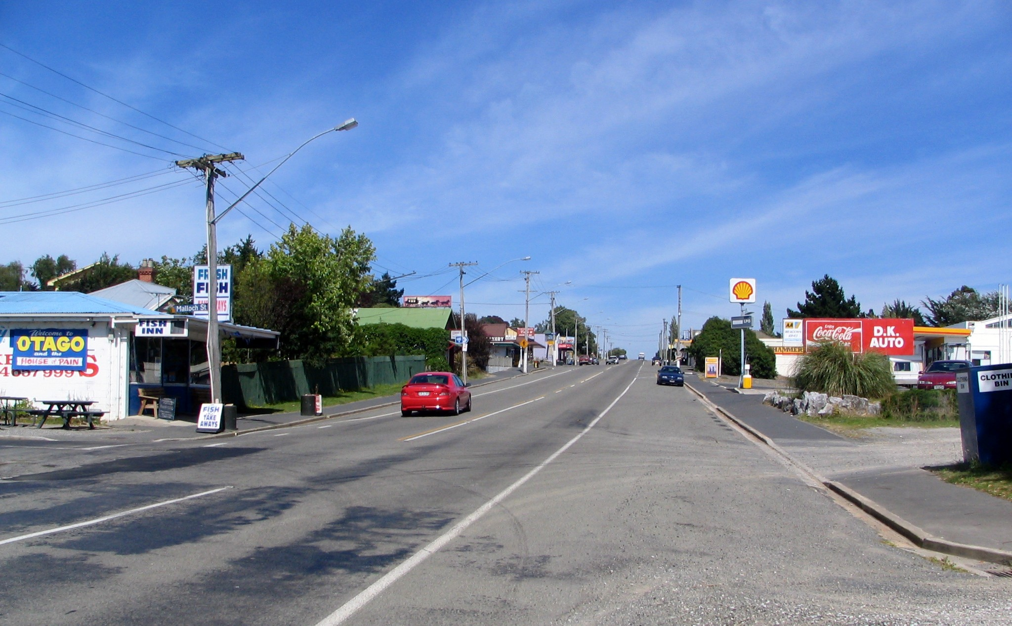 State Highway 1 at Waikouaiti, New Zealand. Own photo